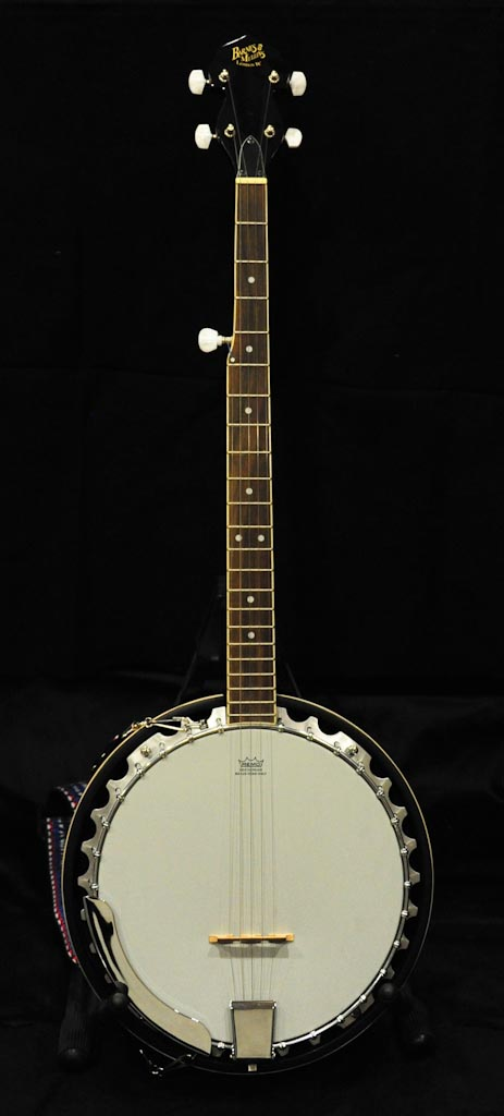 Barnes & Mullins Banjo from Flickr album "200907 My Guitars" by John Clift "My current collection of guitars - five of them are self-built"